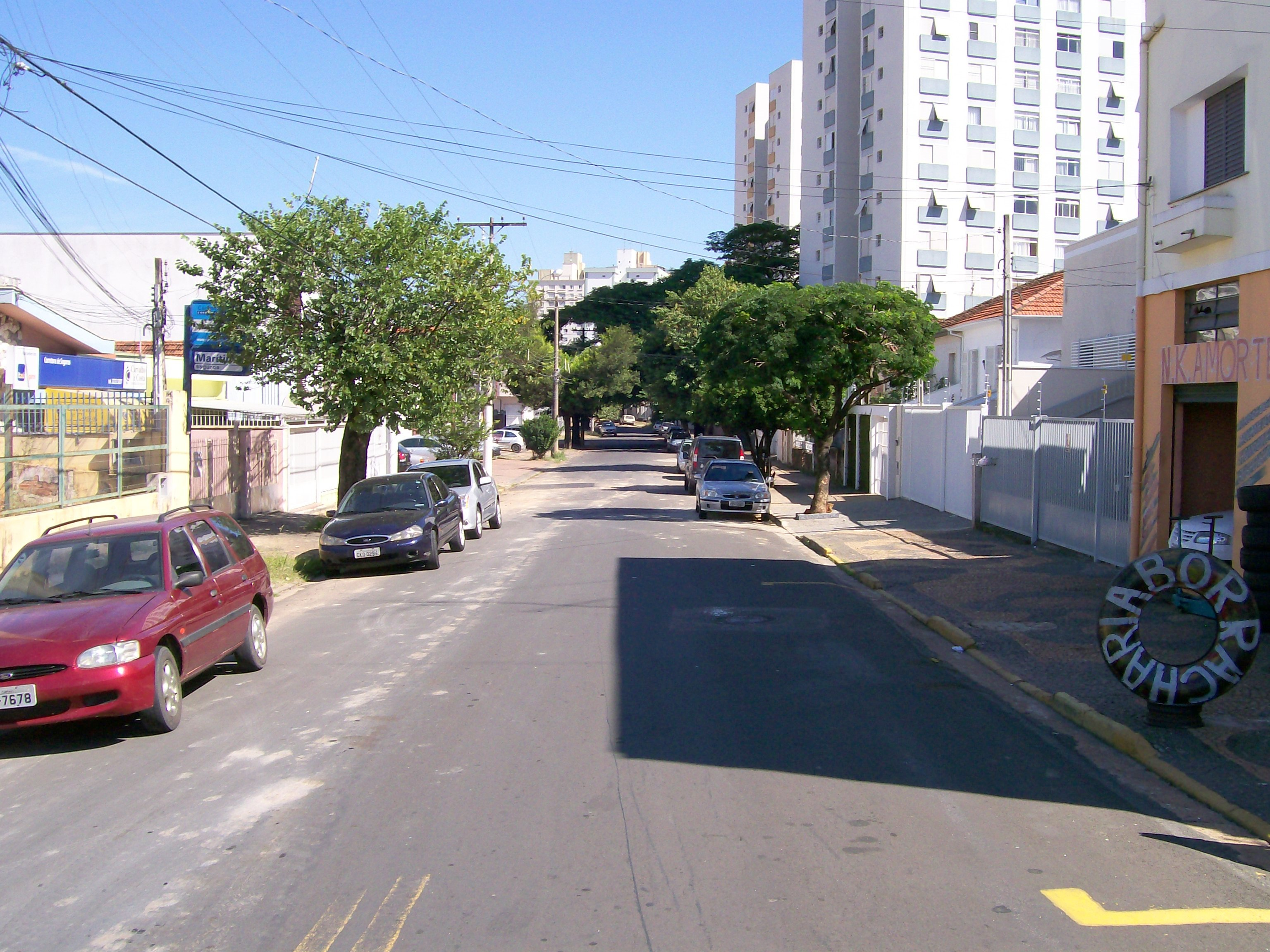 Rodrigues Alves Street, borough of Botafogo, Campinas, Brazil.